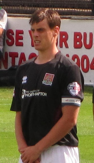 Ian Morris.